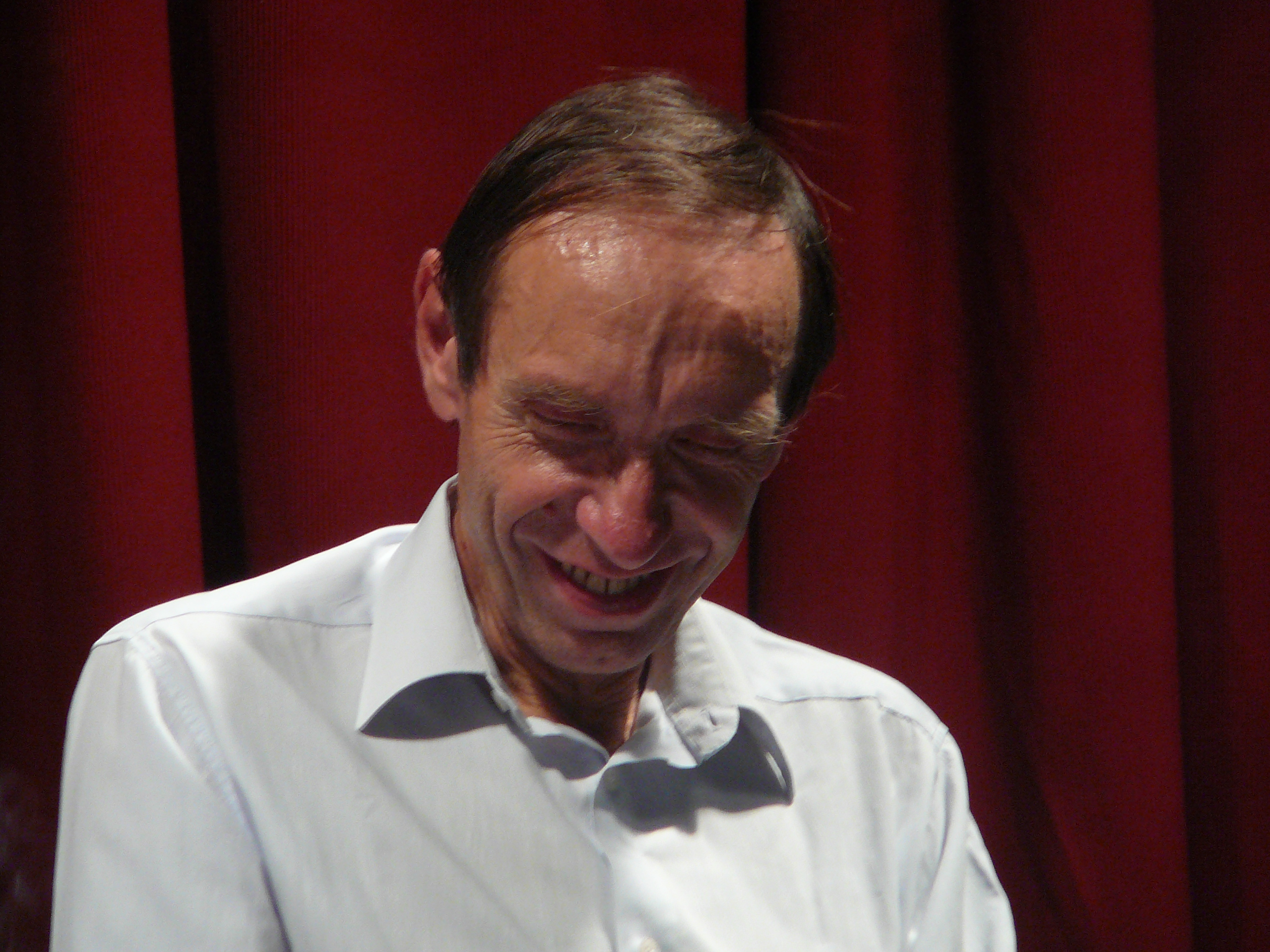 Bohumil Fišer on the friendly meeting in Brno in club Šelepova No 1, 2008